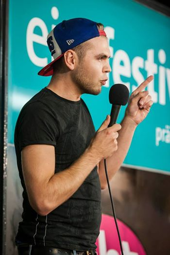 Nightwash Finals